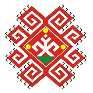 A symbol of Mari Native Religion used by its central organisations.